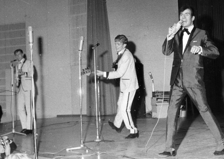 Jan Rohde and The Adventurers